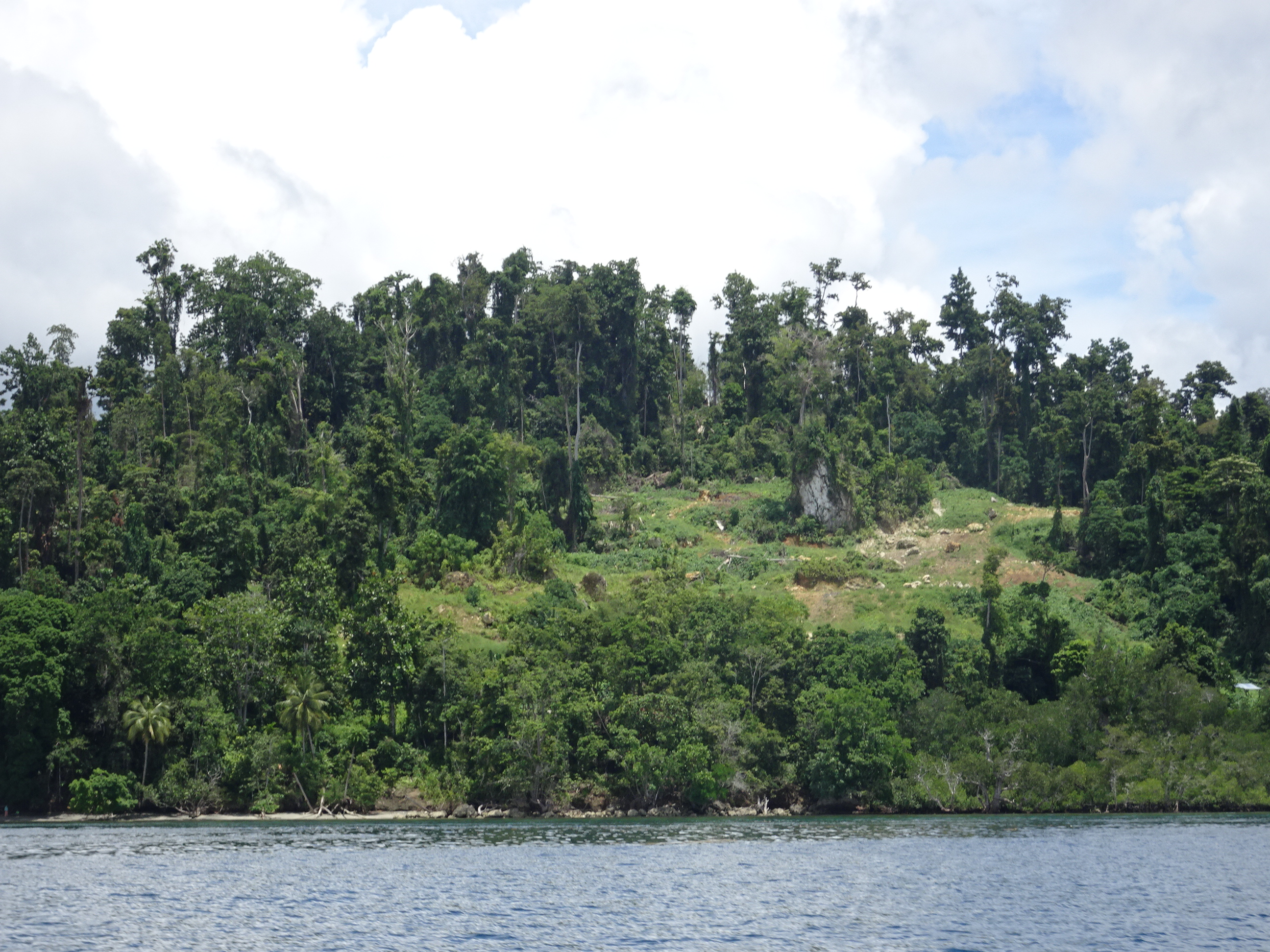 A view of Waigeo coast near Waisai